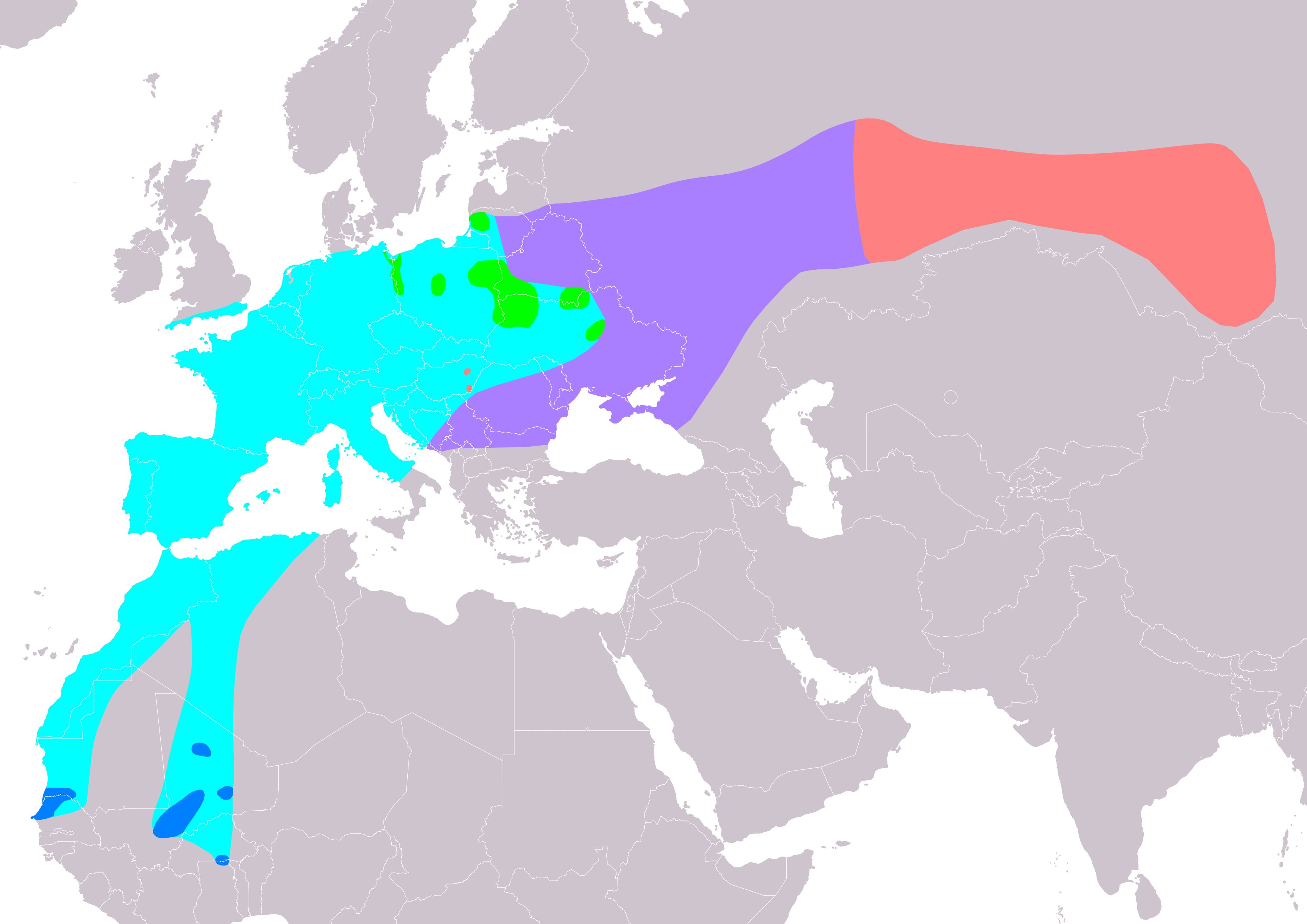 The distribution map of aquatic warbler (Acrocephalus paludicola) according to IUCN version 2019.1, Legend: Extant, breeding (#00FF00), Extant, passage (#00FFFF), Extant, non-breeding (#007FFF), Possibly Extant (passage) (#AA7FFF), Probably extinct (#FF8080)